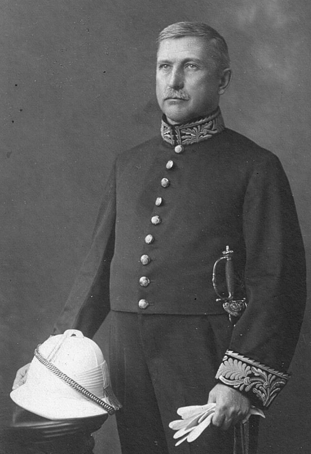 Detail of a photo of F.O. Oertel made in September 1930 in the studio of Johnston & Hoffmann, Calcutta